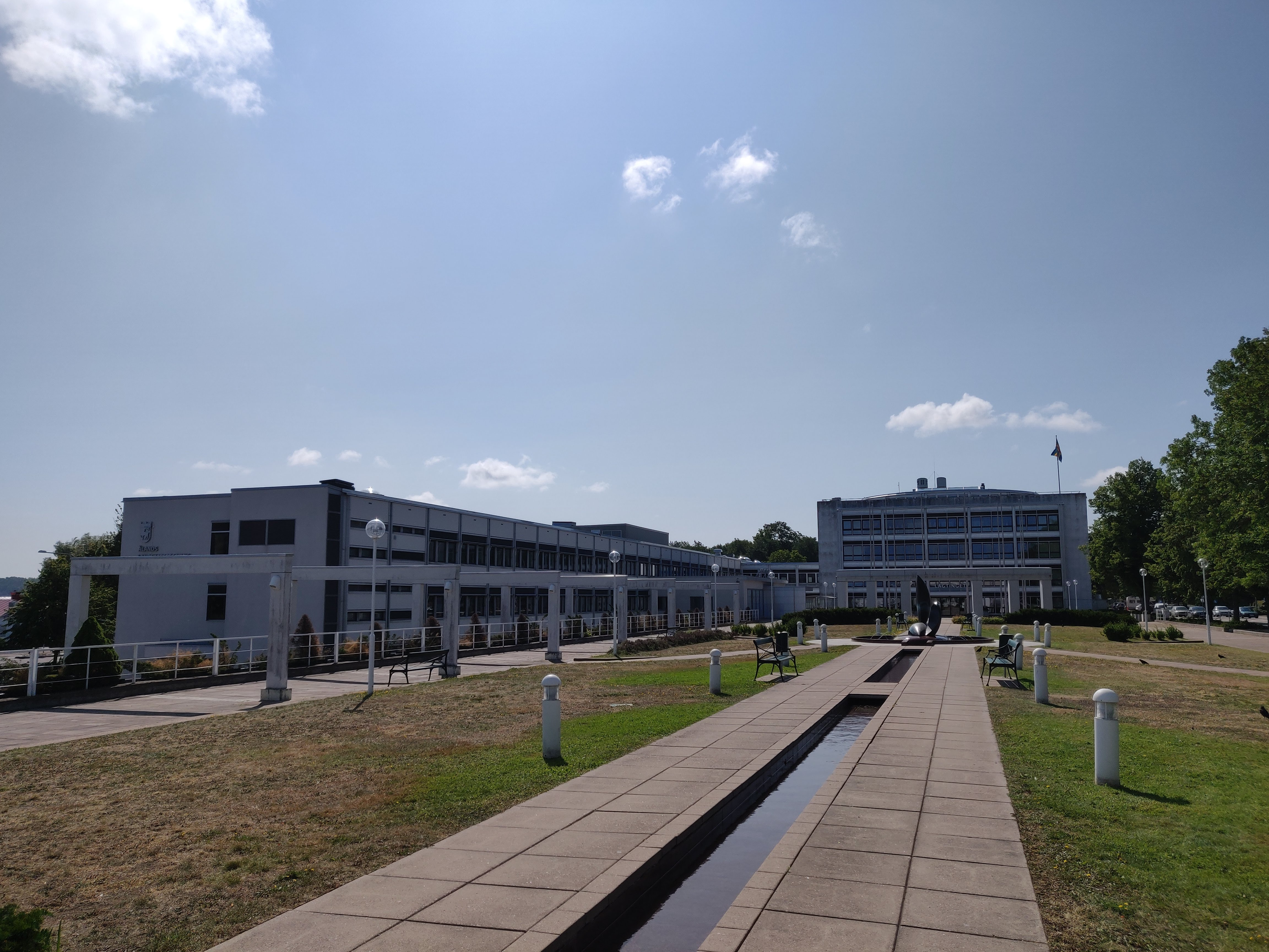 Picture of the government and Lagting building in Mariehamn, Åland (taken from the Self-administration Garden)